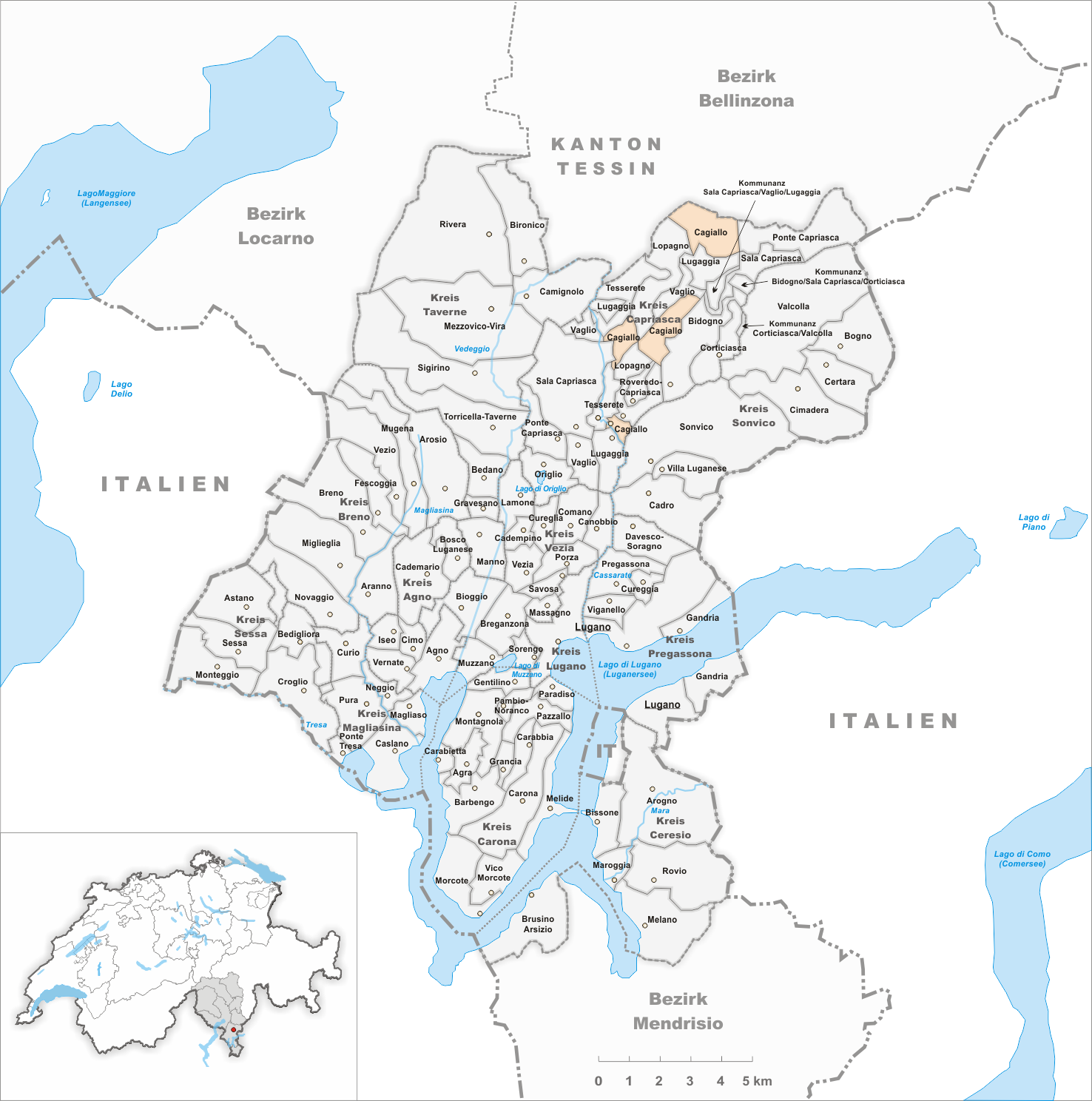 Municipality Cagiallo Artist: Tschubby